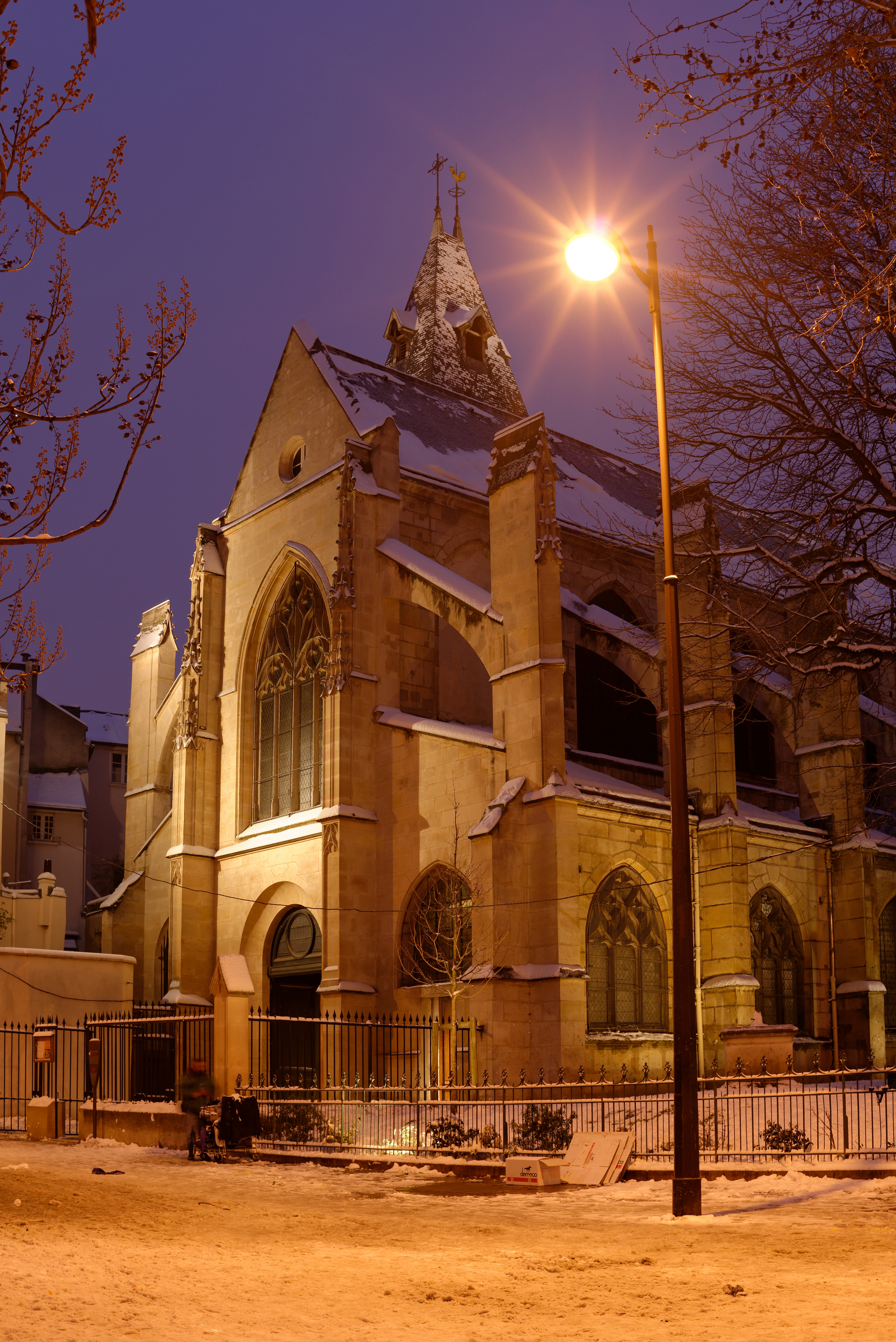 Church Saint-Médard in Paris by twilight and under the snow.